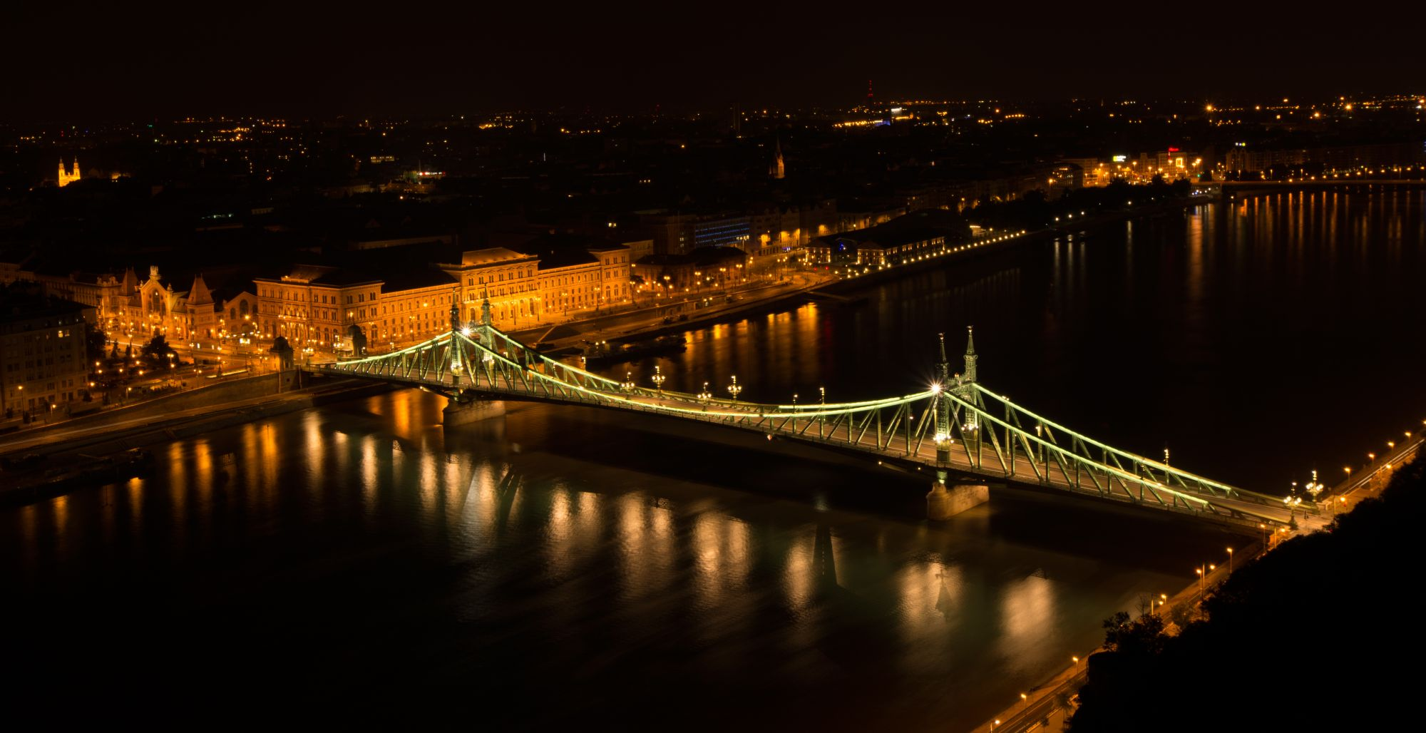 Liberty Bridge in Budapest